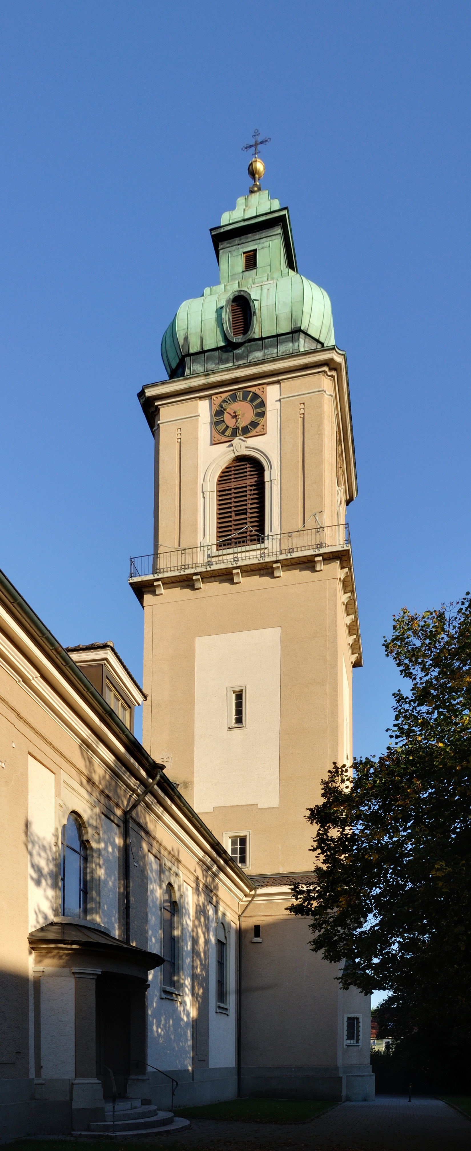 Saint Joseph church in Rheinfelden (Baden), bell tower